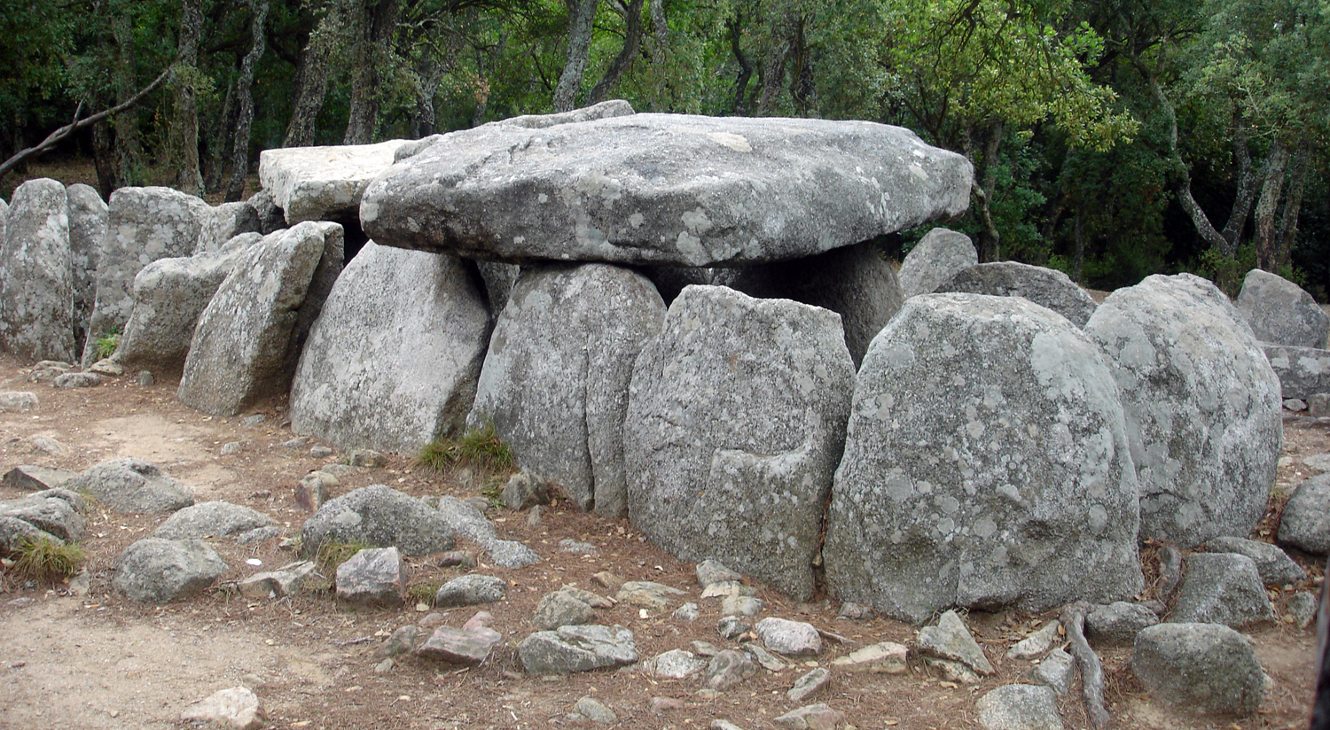 Dolmen of Cova d'en Daina (Girona, Catalonia)